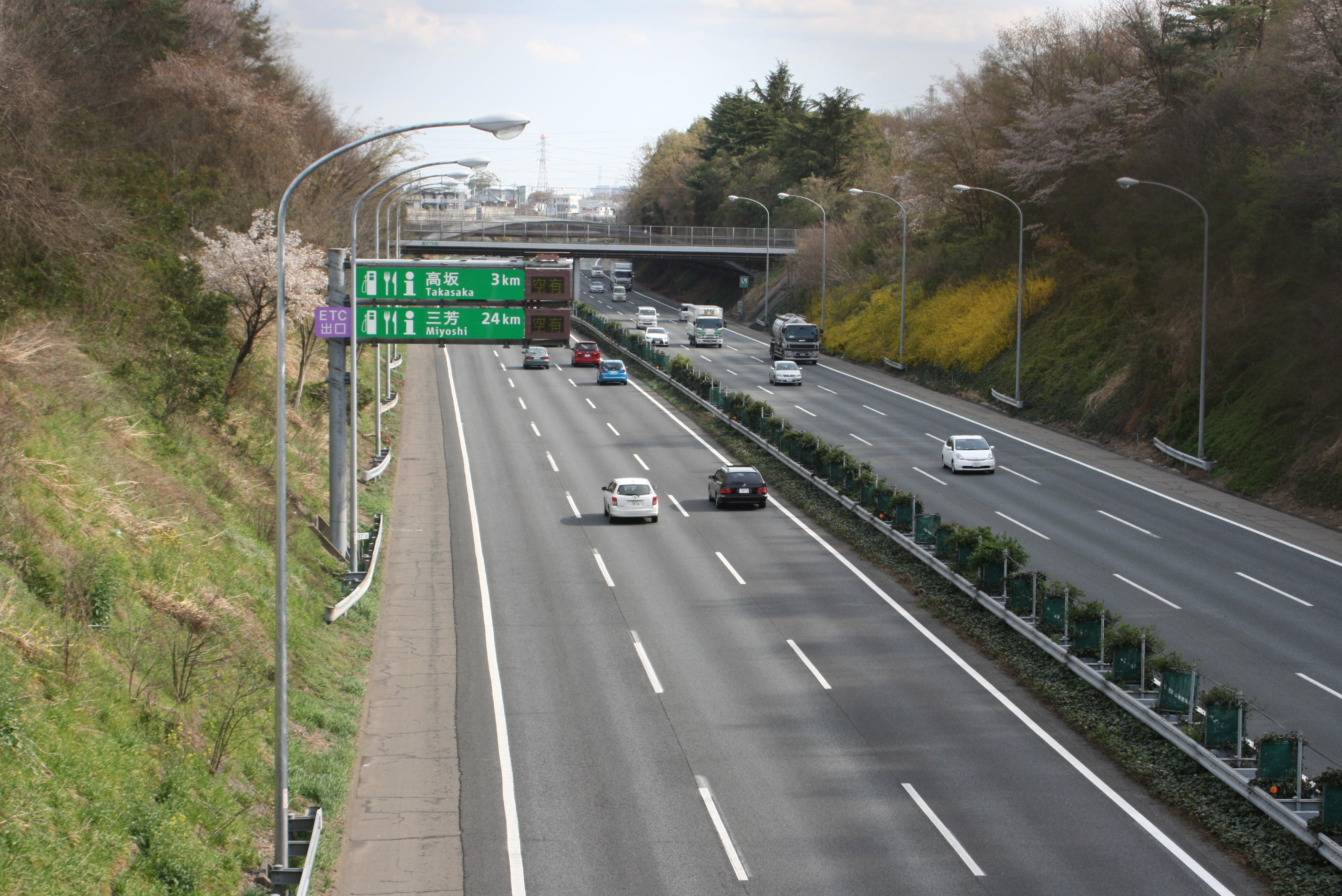 Kan-Etsu Expressway seen from Kuzubukuro bridge No.2